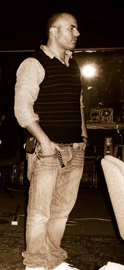 Photo for Bio